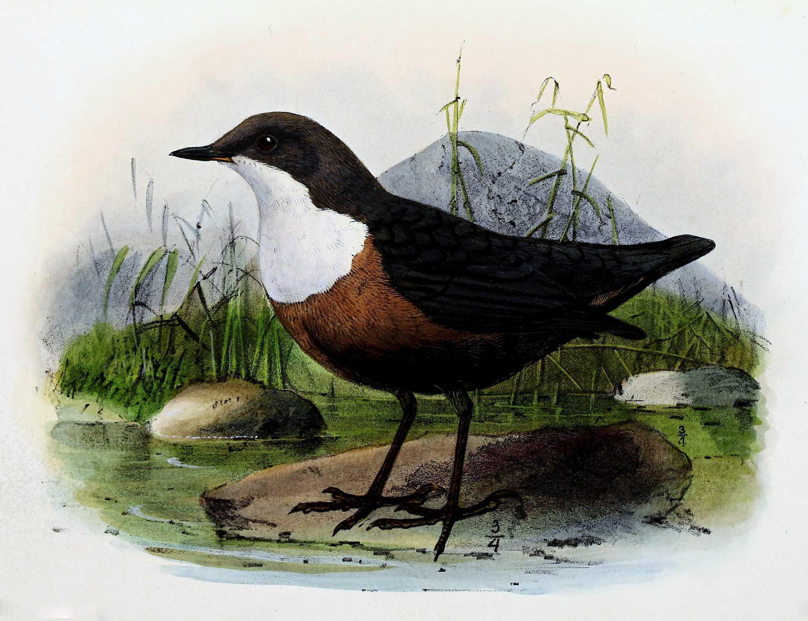 « Cinclus aquaticus » = Cinclus cinclus (White-throated dipper)